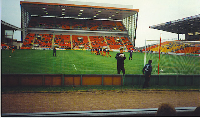 Inside Pittodrie Stadium. Taken not long after the Dick Donald Stand was opened, goalkeeper Theo Snelders and the Dons prepare for their next league match.